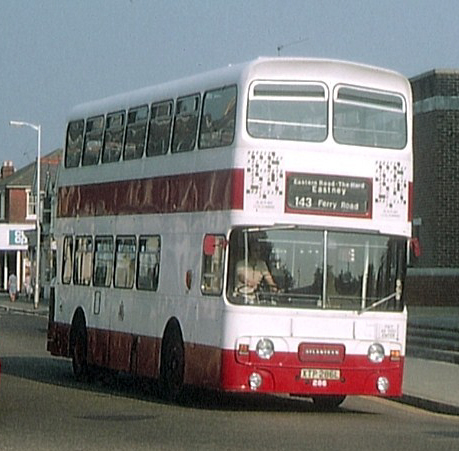 Portsmouth Corporation bus 286 (reg. XTP 286L), a 1973 Leyland Atlantean AN68 double-decker with Alexander AL-Type bodywork, pictured in Portsmouth, Hampshire. It is heading west on Tangier Road, about to turn right into Dover Road, while operating route 143 to Ferry Road, Eastney.